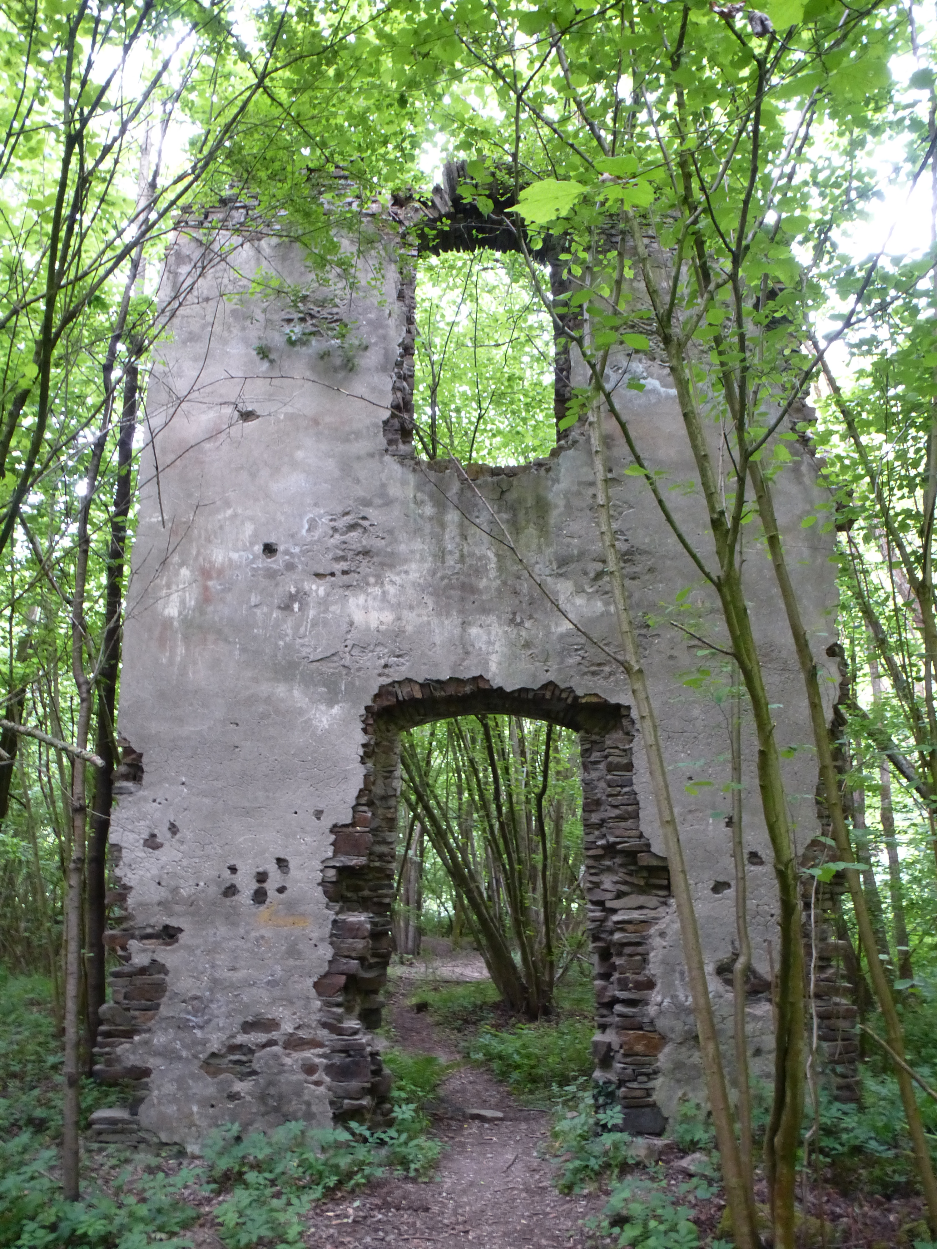 Ruins of the former Carmelites convent Toenesstein (aka Sankt Antoniusstein), established in 1465, in the wood land near Toenisstein, Rhineland-Palatinate, Germany